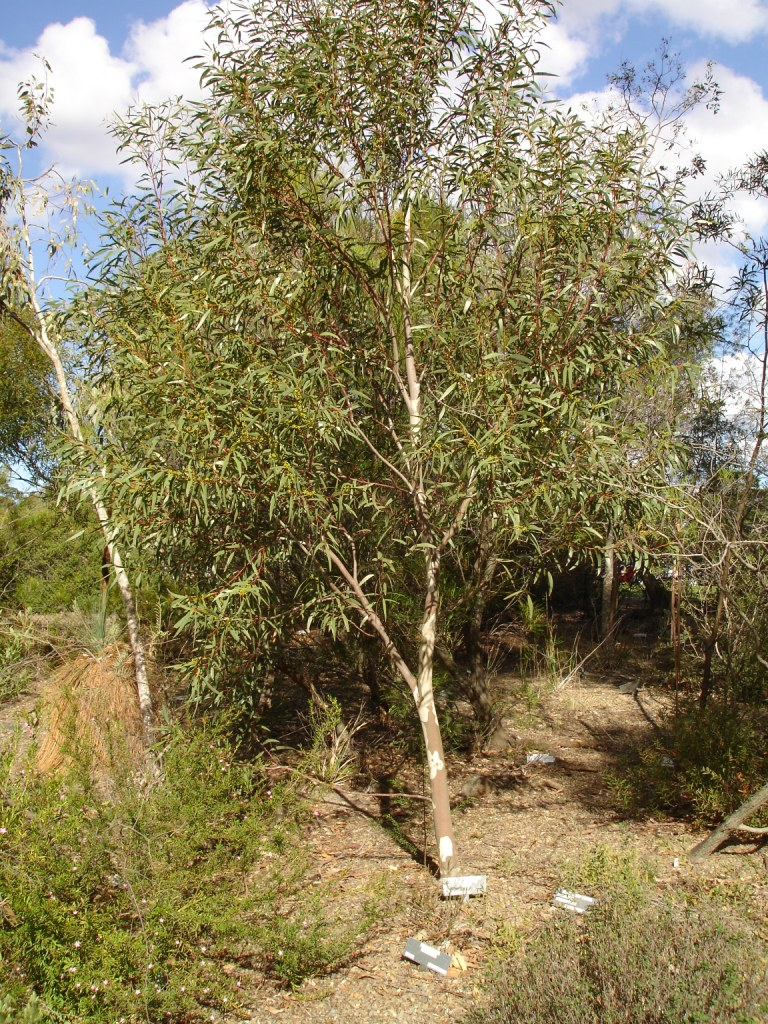 At Maranoa Gardens, Melbourne, Victoria, Australia